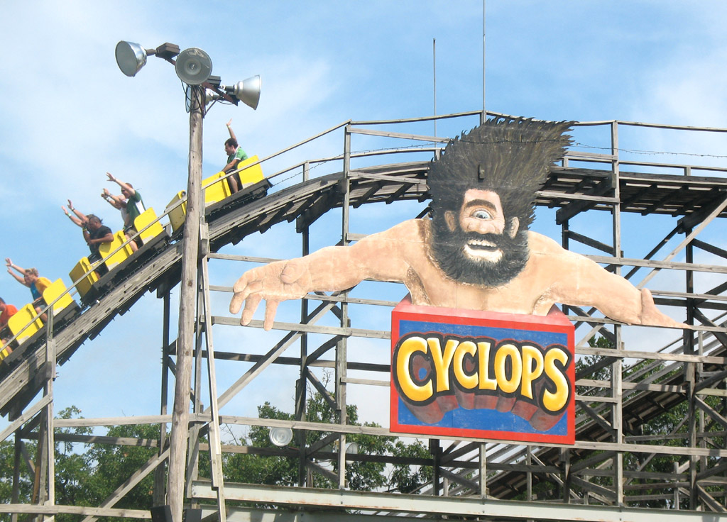 Cyclops at Mount Olympus Water and Theme Park in Wisconsin Dells